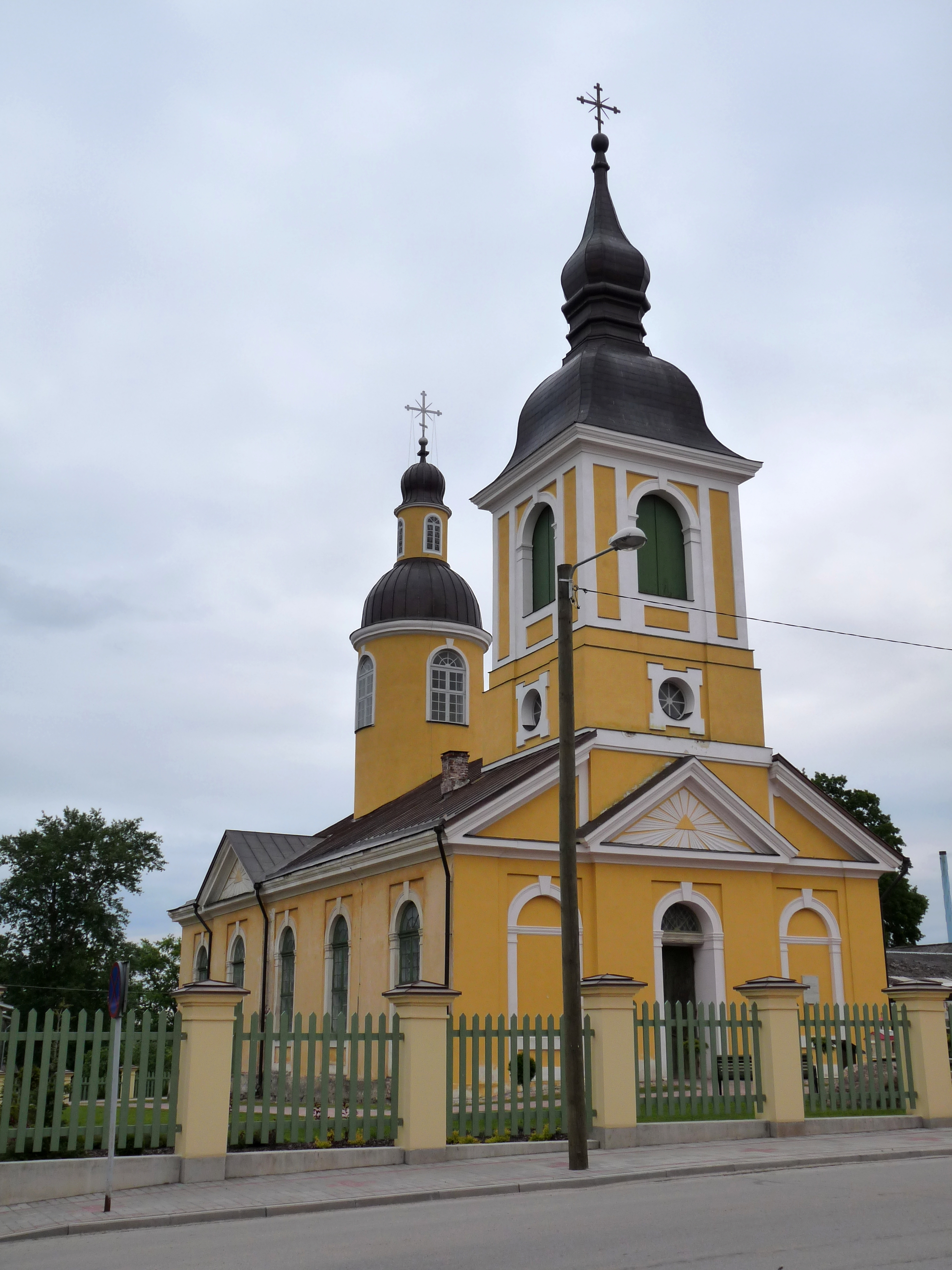 The orthodox church in Võru